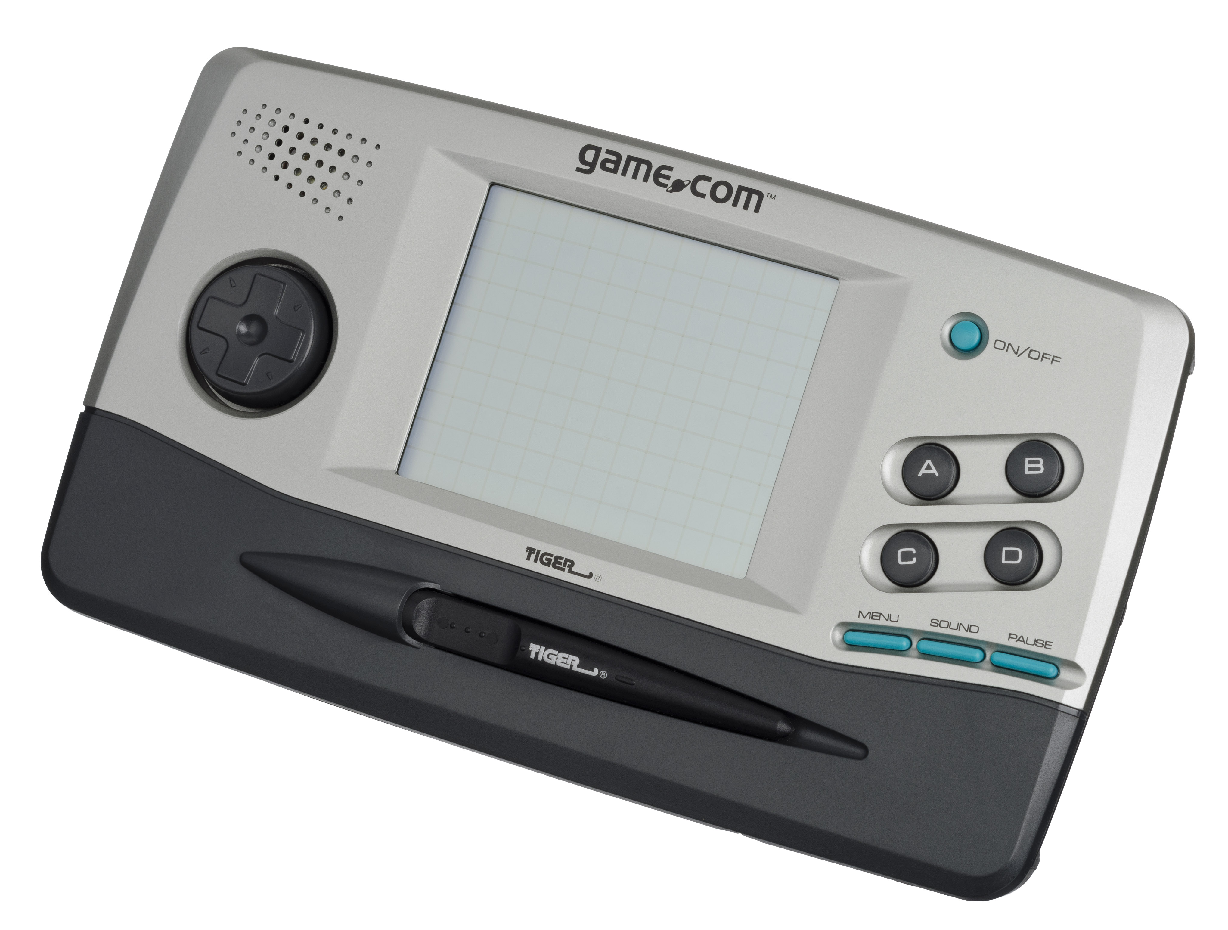 The Tiger , a handheld gaming console released in 1997. The featured a black & white touchscreen, dual cartridge slots and some PDA-style functions.